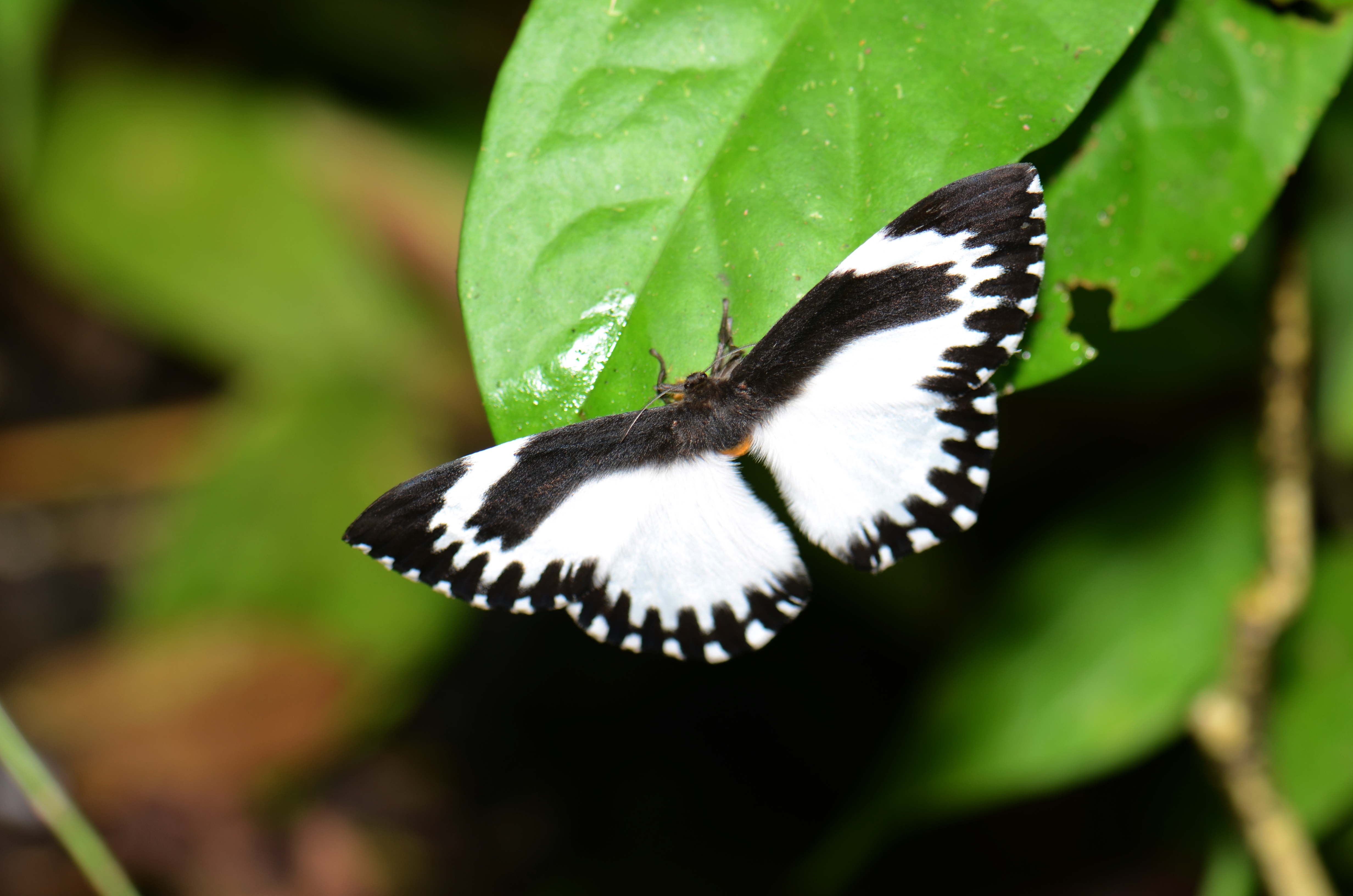 Thanks to Bernard Dupont for ID